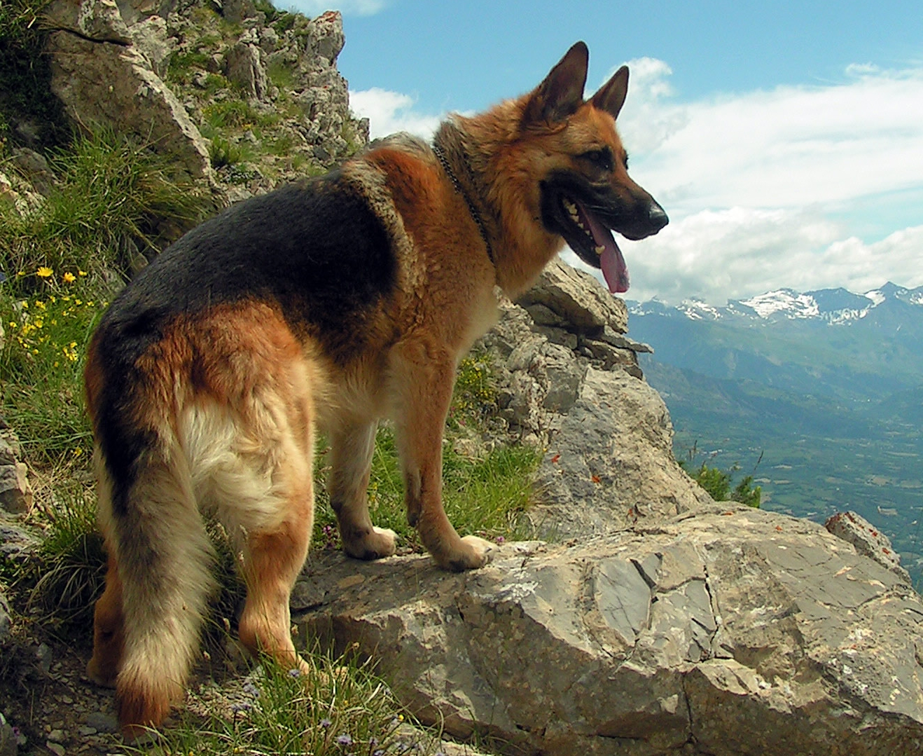 A German Shepherd dog on a mountain.